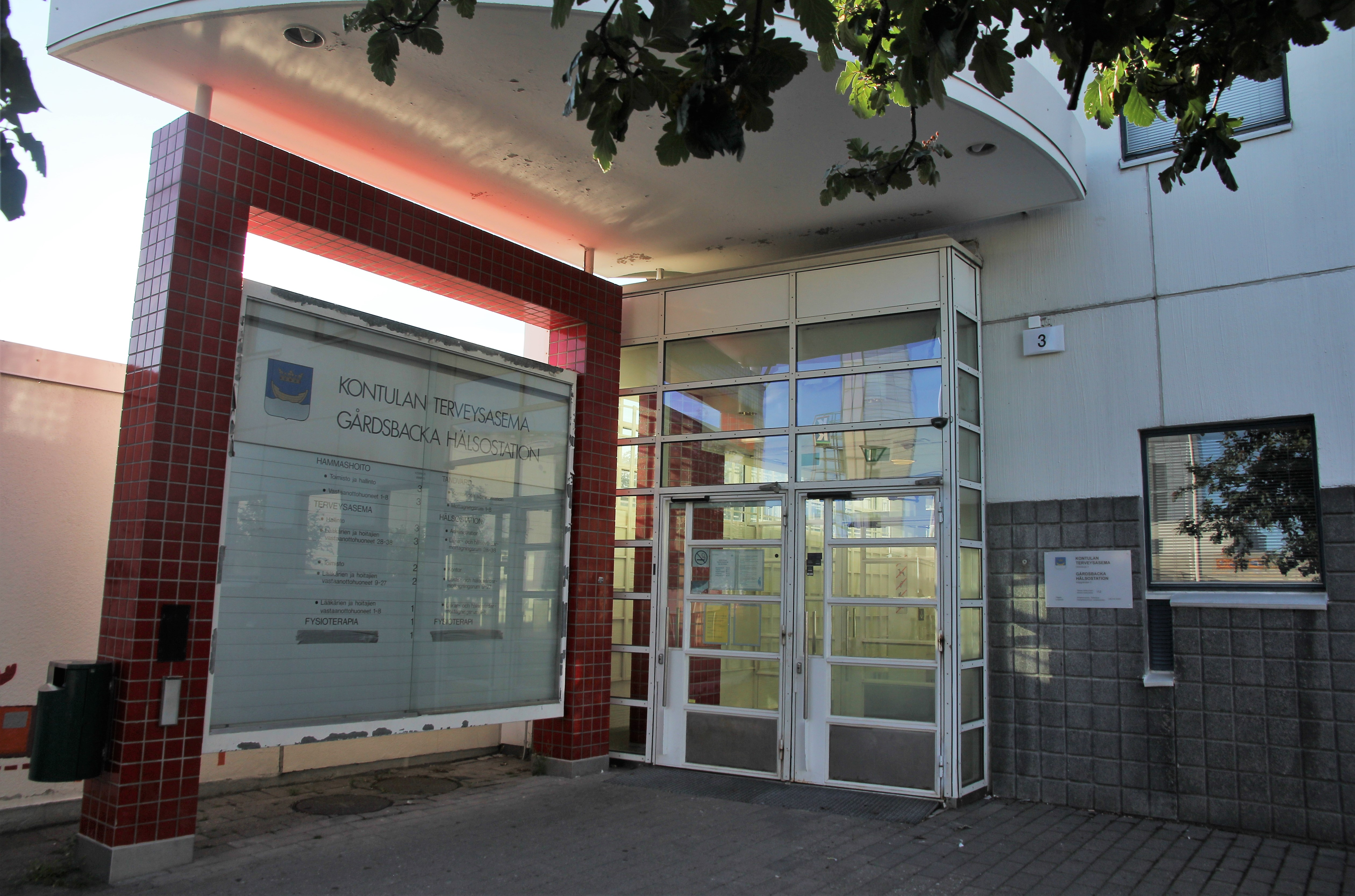 Kontula Health Station. Address: Ostoskuja 3, 00940 Helsinki.